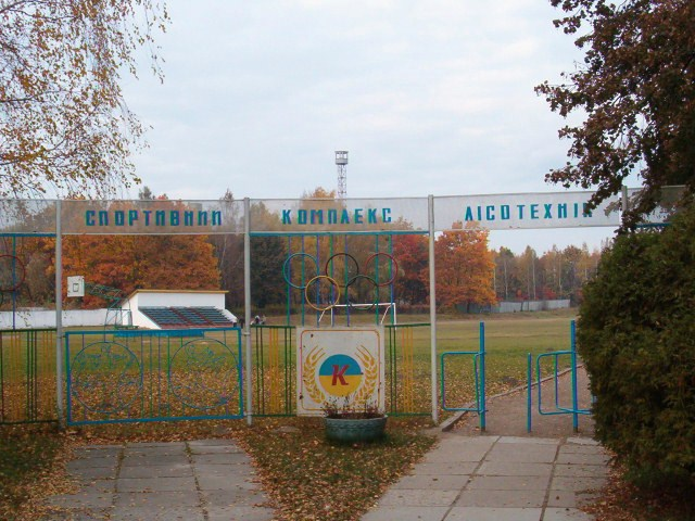 The Berezne Forestry College, sporting complex (stadium)